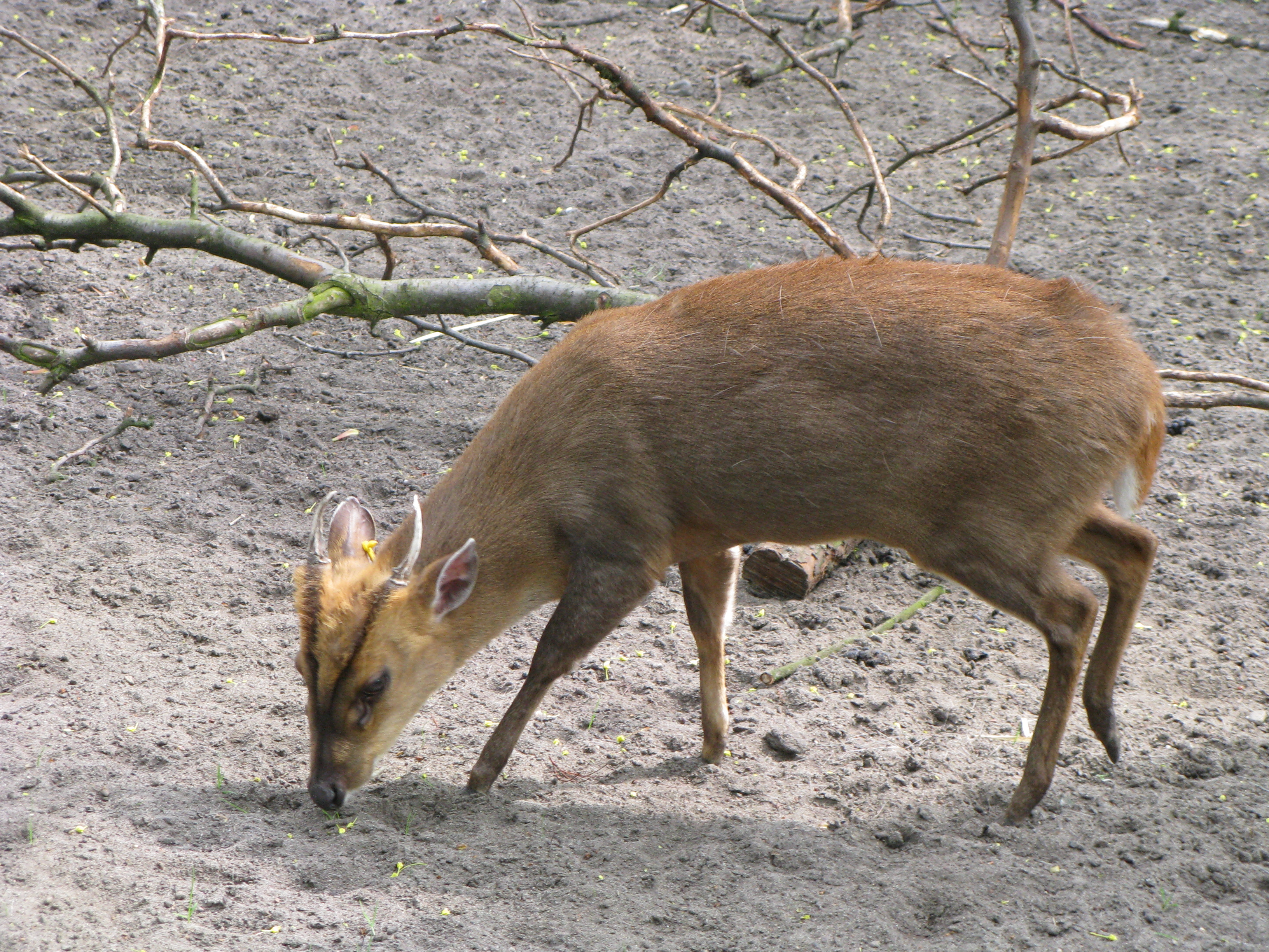 Muntiacus reevesi in Zoo-Botanical Garden in Toruń